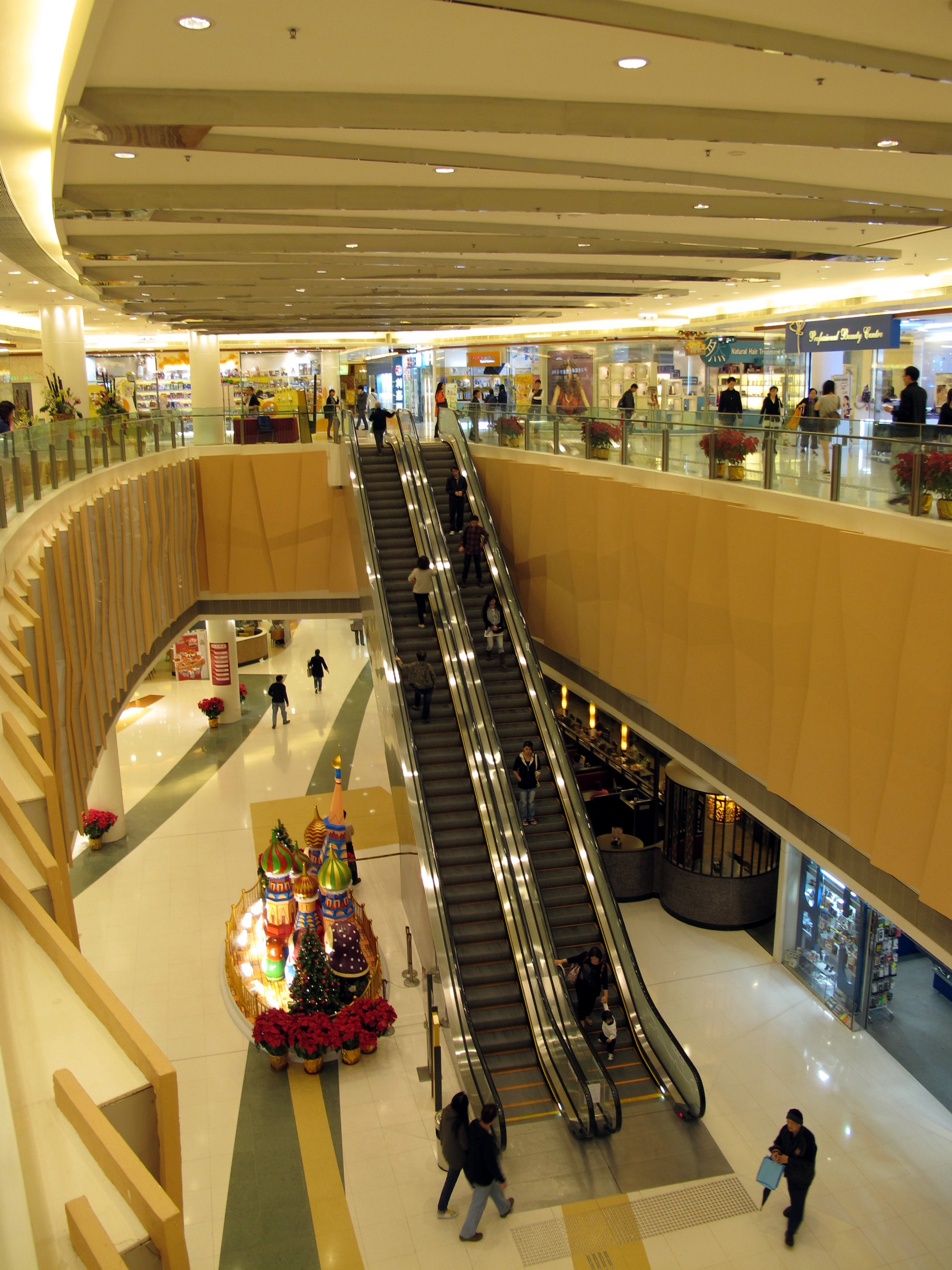 The Edge Shopping Arcade Void View